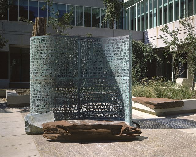 "Kryptos" by James Sanborn, is one of the three sculptures at the George Bush Center for Intelligence grounds. It runs a theme of information gathering and includes an encoded copper screen. Low-res image of the CIA's Kryptos sculpture, provided by the sculptor, Jim Sanborn..